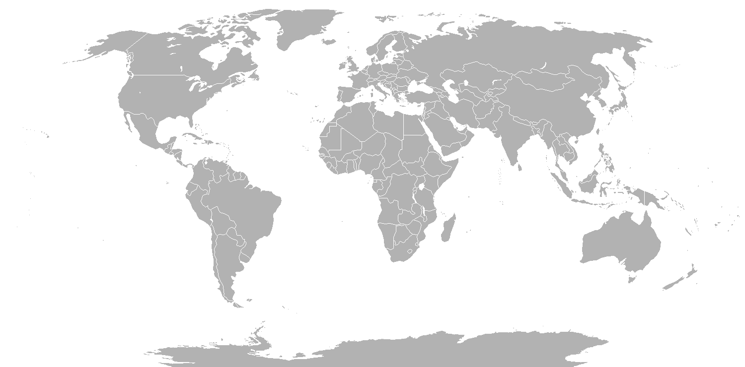 Land Boundaries of states with limited recognition from their parent country Disputed boundaries Water and non-disputed, recognized political boundaries A blank map of the world as of 2014, with country outlines, for making country locator maps. This map uses the Robinson projection, compressed at latitude direction by factor 0.95623, centered on the meridian circa 11°15' to east from Greenwich Prime Meridian and includes various microstates and island nations. All territories indicated in the UN listing of territories and regions are exhibited. Base map: File:"Political World" CIA World Factbook map 2005.svg from the CIA World Factbook (2005).[1] Blank maps of the world for historical use pre-1800 1 · 820 · 1500 · 1710 19th century 1840 · 1861 · 1866 · 1872 · 1898 20th century 1912 · 1914 · WWI · Aug 1918 · 1921 · 1924 · 1935 · 1937 · Mar 1938 · Oct 1938 · Mar 1939 · Oct 1939 · WWII · Nov 1942 · May 1945 · 1957 · 1959 · 1962 · 1970 · 1985 · 1990 · 1993 21st century 2000 · 2005 · 2007 · 2009 · Current (this template: · view · discuss )